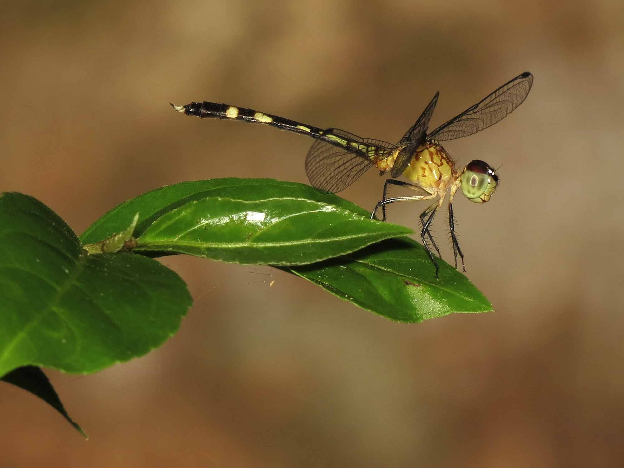 Anatya guttata, female or juvenile. Gamboa, Colón, Panamá